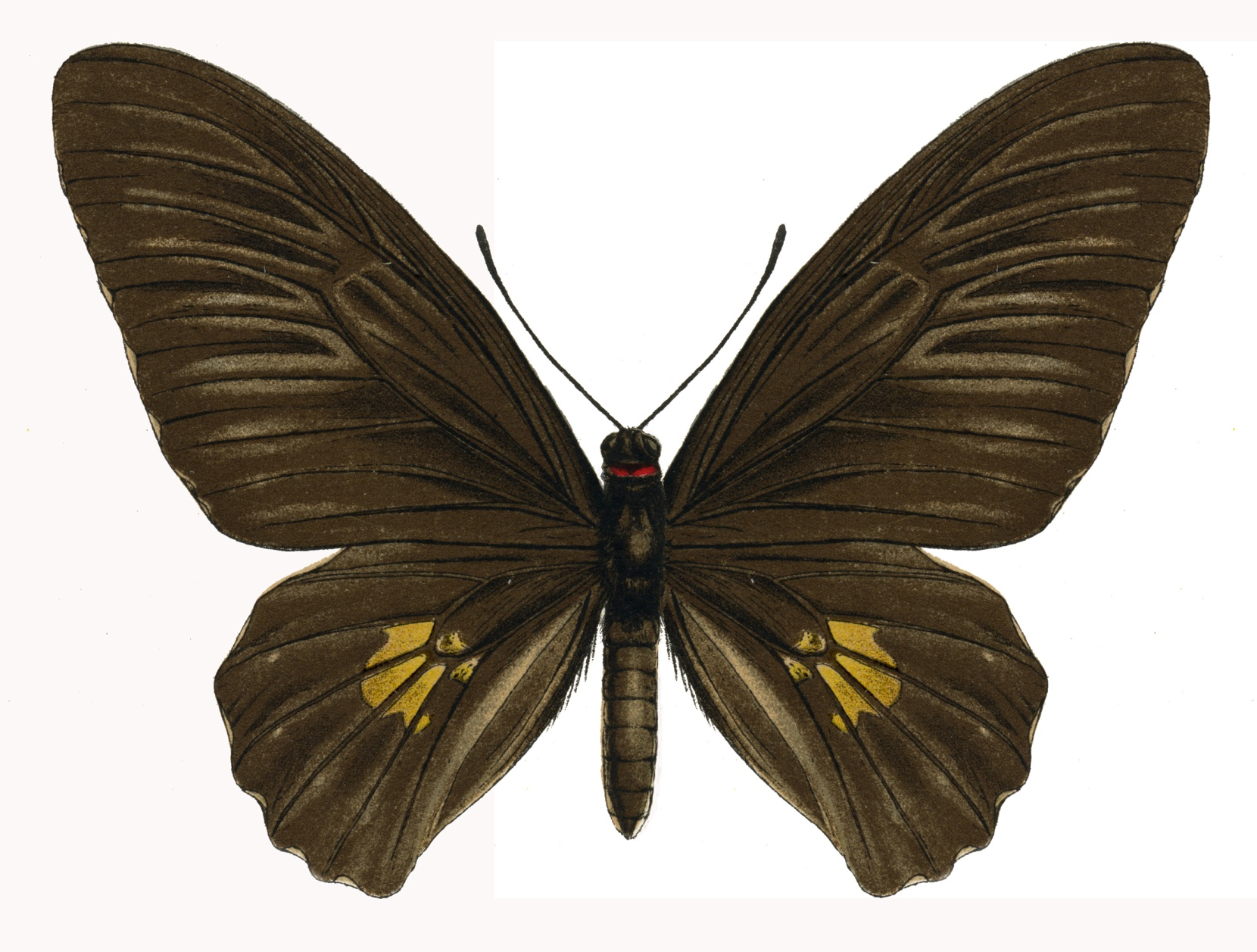 Talaud Black Birdwing, female, upperwing